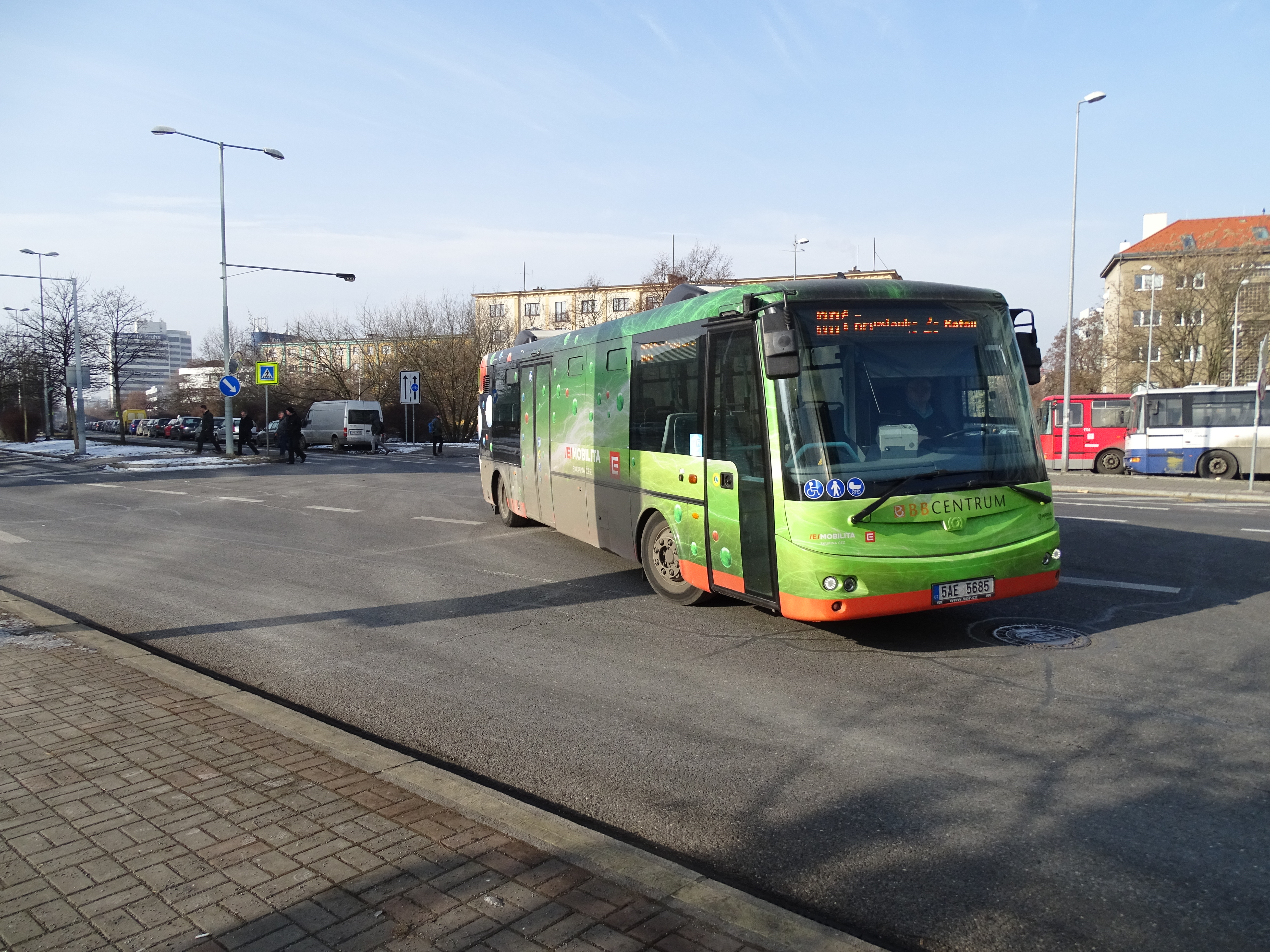 Prague-Krč, Czechia, Olbrachtova street, bus loop Budějovická, bus SOR EBN 9,5.